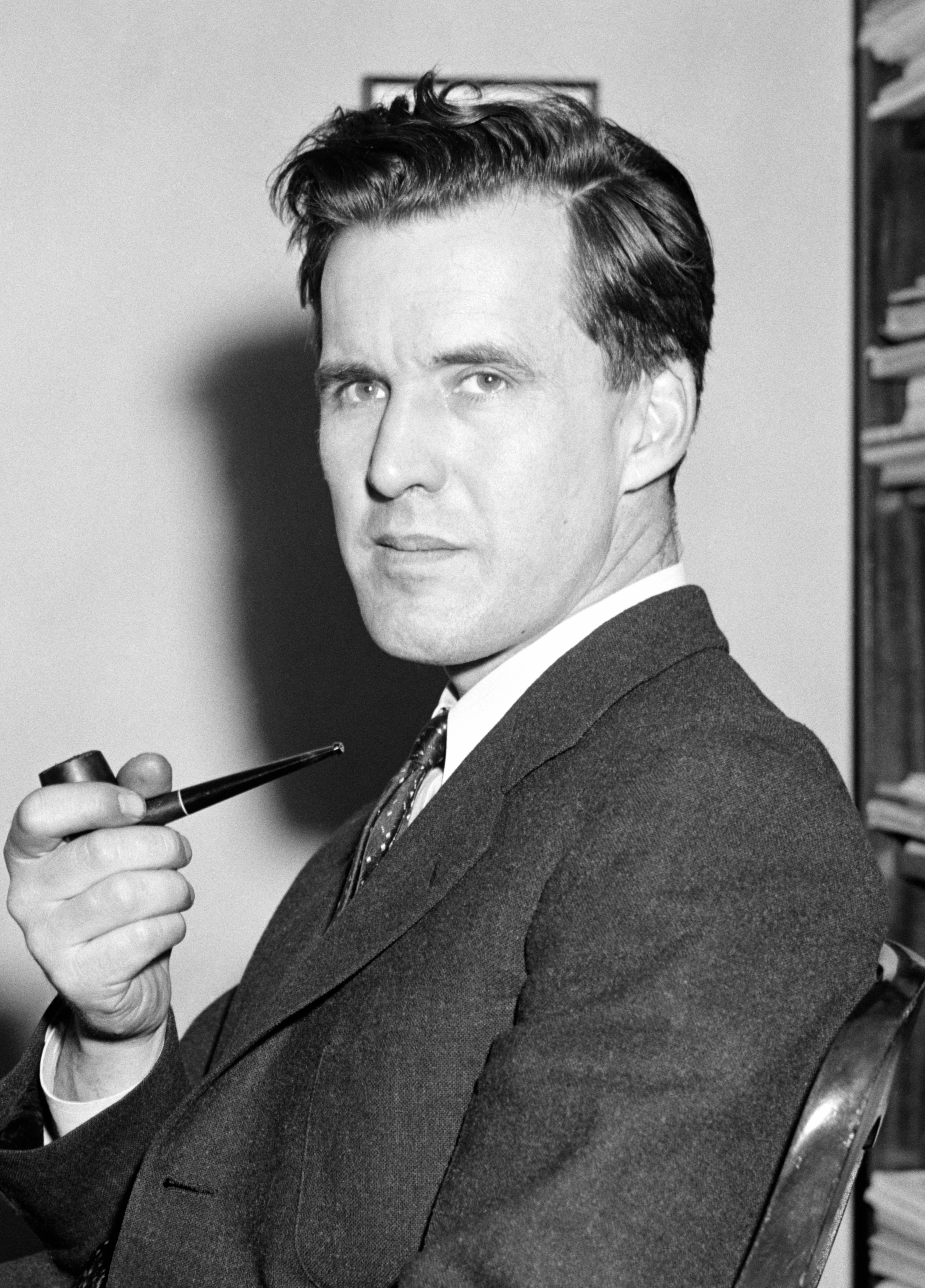 Jerry Voorhis, Californian Democratic member of House of Representatives.